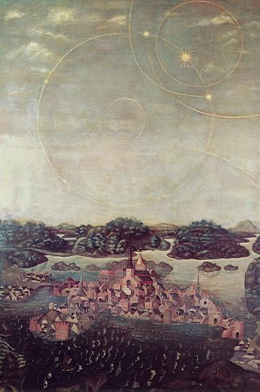 Copy from the 1630s by Jacob Elbfas of an original painting from 1535 by Urban målare, depicting a halo display event. The visible haloes are: 22 ° halo, at upper right (should be centered on the Sun) parhelic circle, large white circle (centered on the zenith: appears 'horizontal' in the sky) parhelia including 2 sundogs, 2 120° parhelia and the anthelion (dots on the parhelic circle, resp. nearest to farthest from the Sun) upper tangent arc and possible Parry arc (2 crossing arcs just left of the 22° halo (actually 'above' the 22°, in the sky); not realistically shown) circumzenithal arc, smaller crescent inside the parhelic circle (also centered on the zenith: appears 'horizontal', high in the sky) infralateral arc (bottom right) Note that the whole sky appears strongly tilted in the image: the upper right corner is actually down in the sky (when looking towards the Sun), the zenith is at the center of the circumzenithal arc and parhelic circle. This may result from the artist's choice to represent the display in a realistic orientation relative to the landscape: in this case the sun would have shone from 3/4 back to the right of an observer facing the city. The relative brightnesses of the haloes are quite accurate.